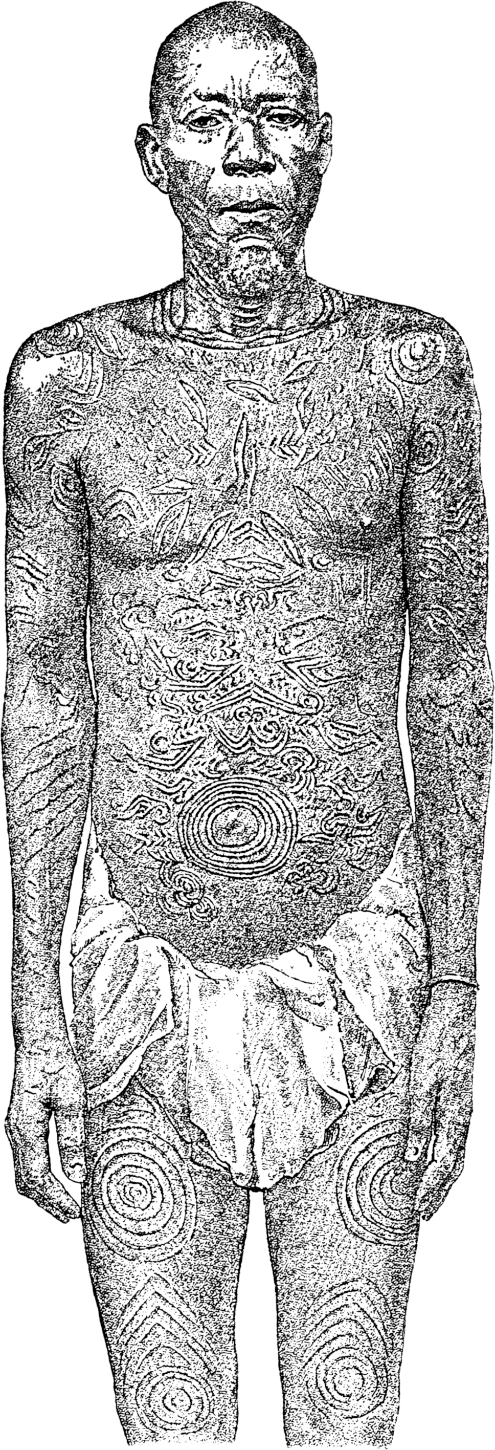 Baluba-man by tattoos.